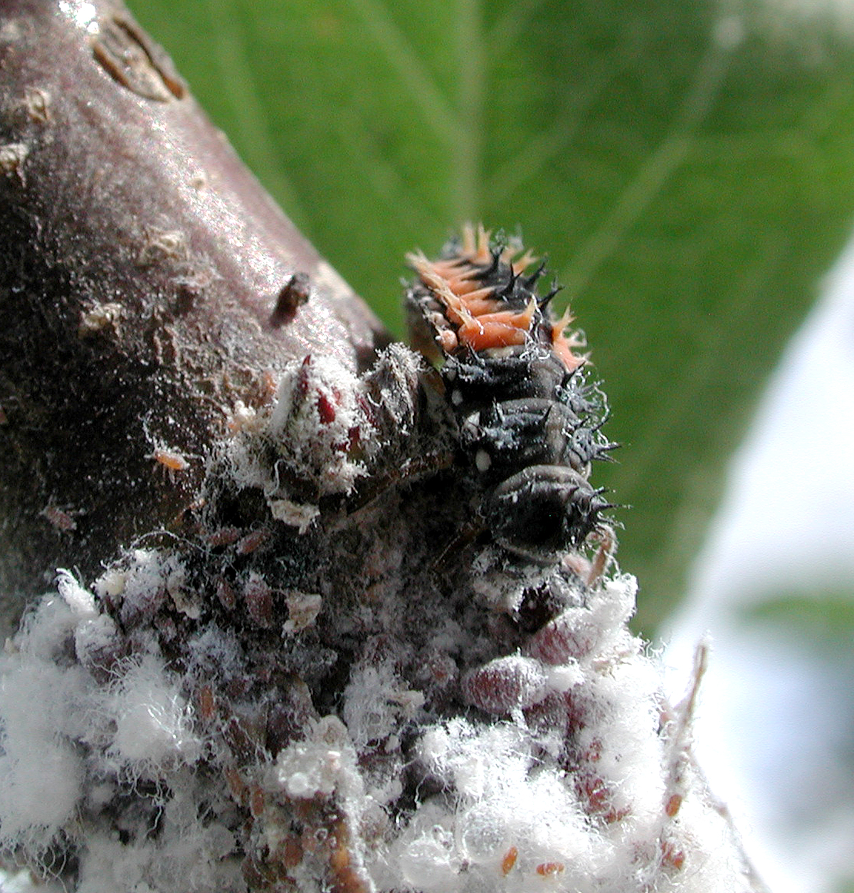 Ladybird larva (Harmonia axyridis) eating wooly apple aphids (Eriosoma lanigerum)